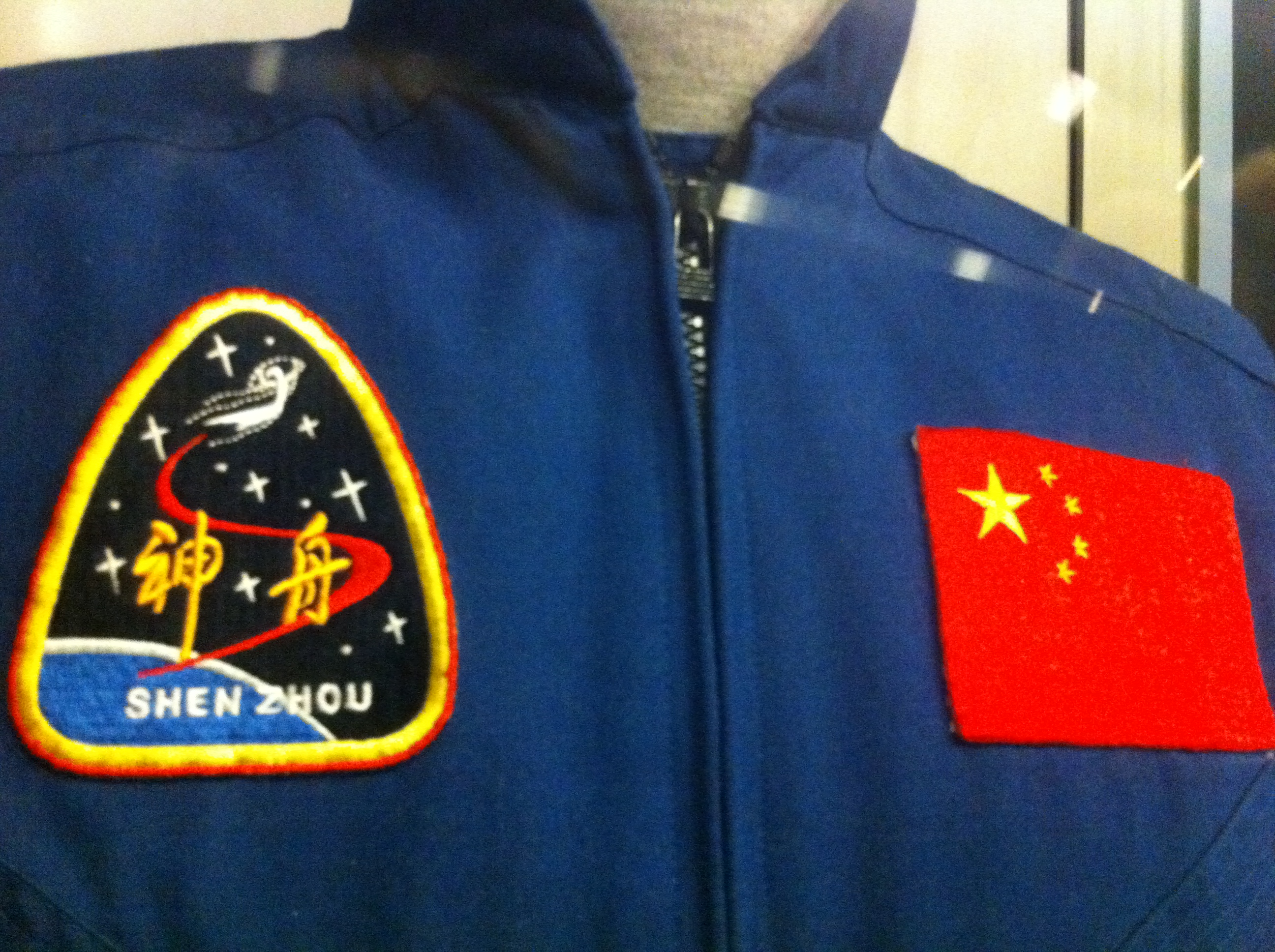 香港太空館, Salisburgy Road, Tsim Sha Tsui, Hong Kong